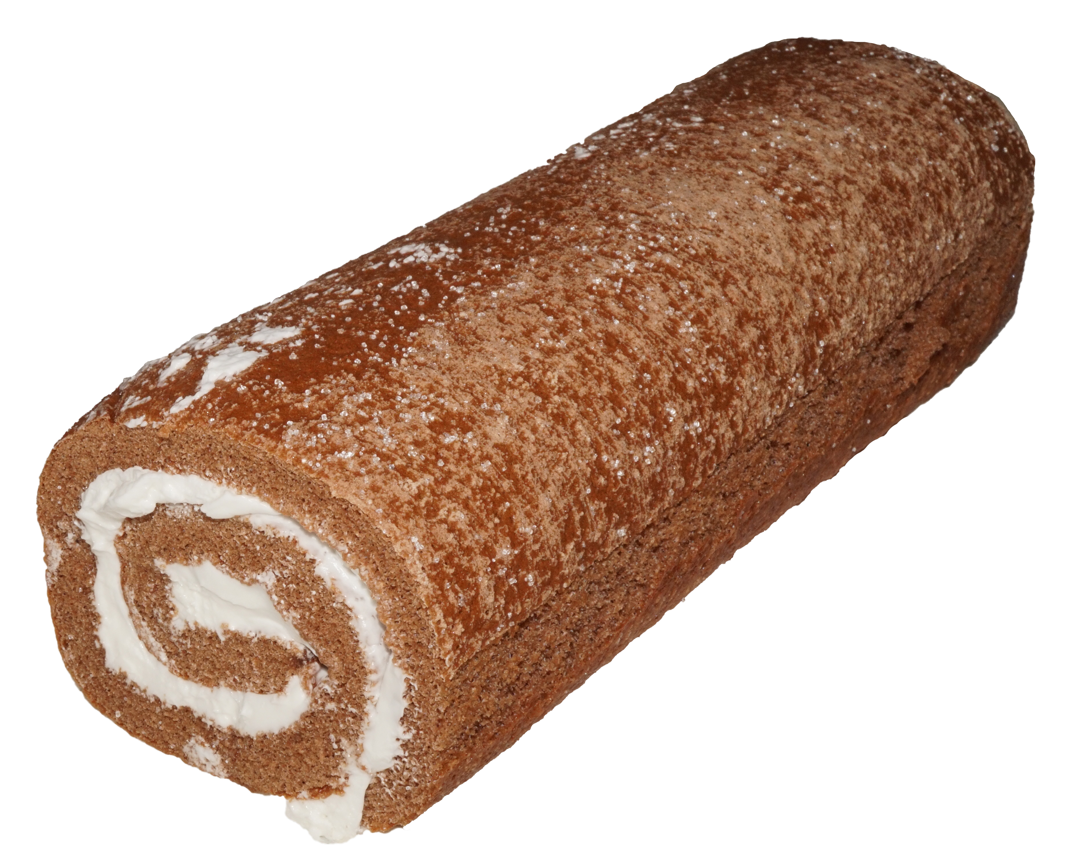 Swiss roll. Producted by Pirkka.